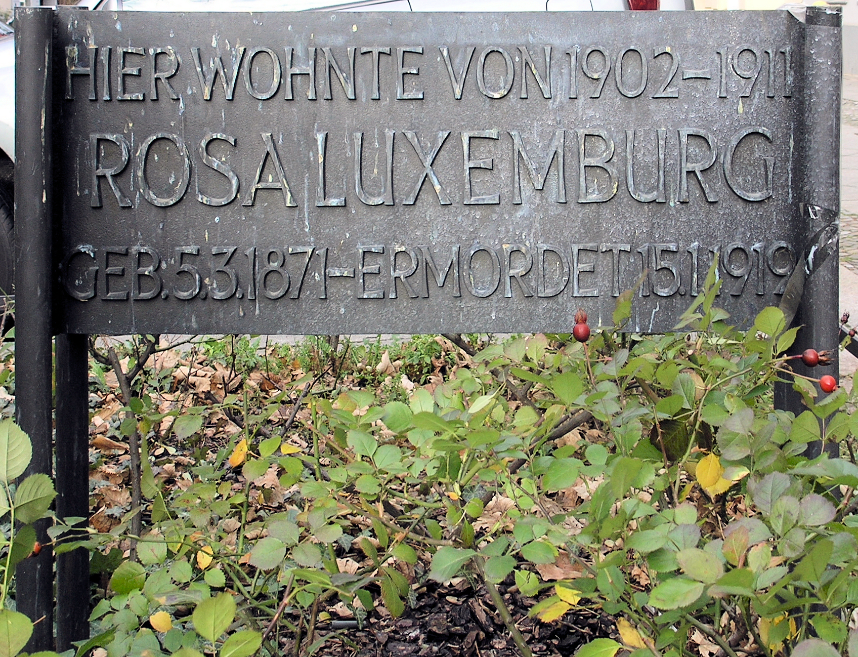 Memorial plaque, Rosa Luxemburg, Cranachstraße 58, Berlin-Schöneberg, Germany